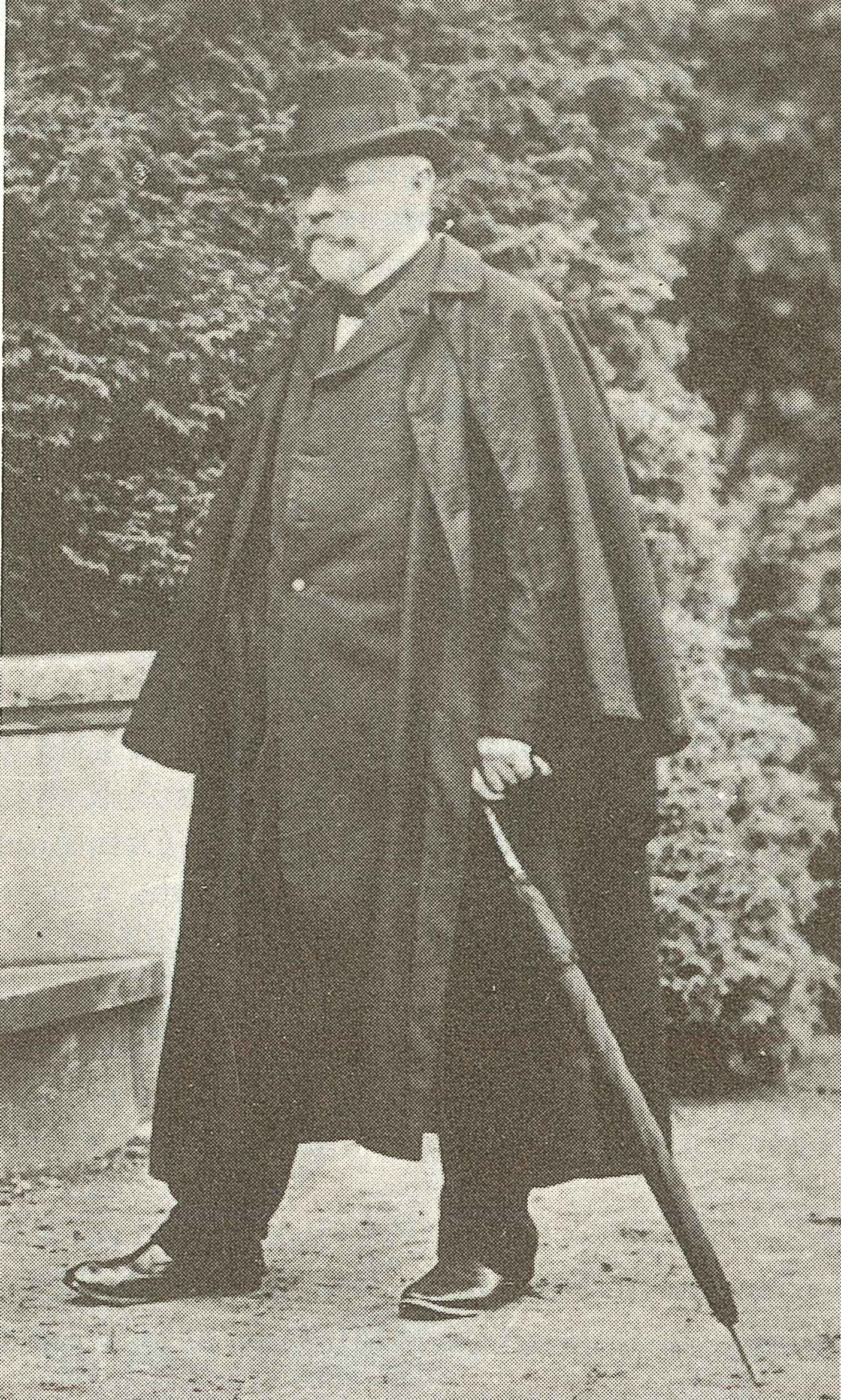 Carl Emeis